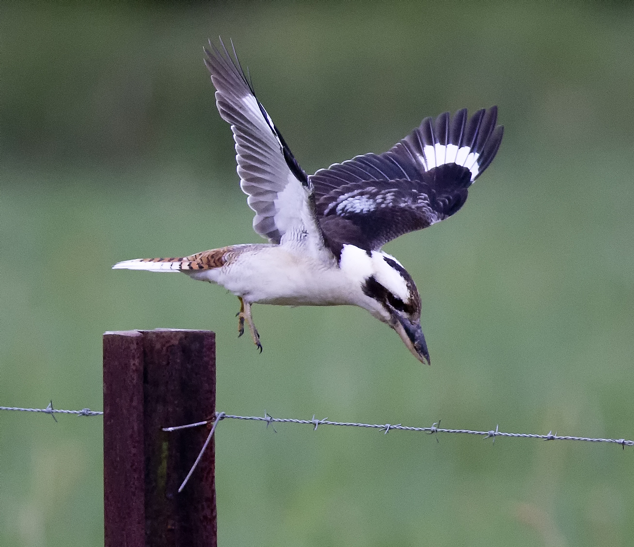 Bellenden Kerr kookaburra, they are there every afternoon. Bit grainy, I had the iso too high...